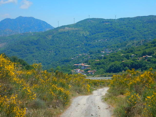 panorama of Fondachelli Fantina under Vernà mountain,Sicily